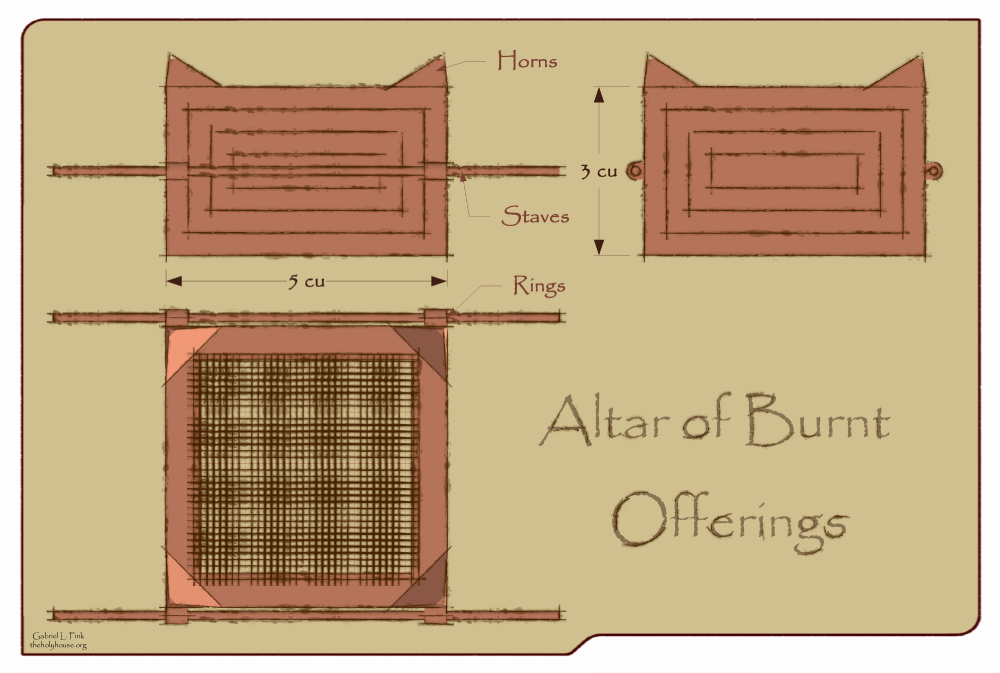 Status: transfered to wikimedia commons from wikipedia. Description: various views of the Altar of Burnt Offerings. Original upload date: 14:46, 13 October 2009 (UTC)October 13, 2009 Original uploader: Epictatus (talk)Gabriel Fink - I Gabriel Fink created this work entirely by myself. My Website